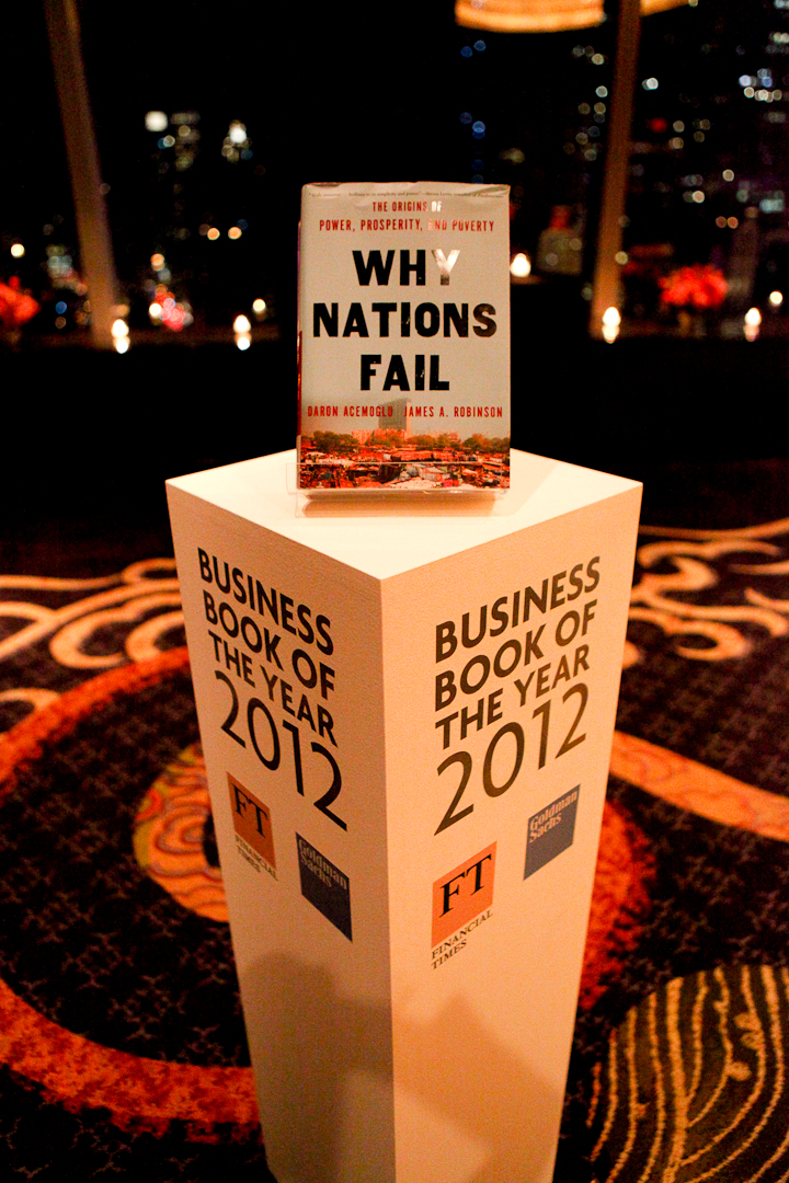 Why Nations Fail Financial Times and McKinsey Business Book of the Year Award short list